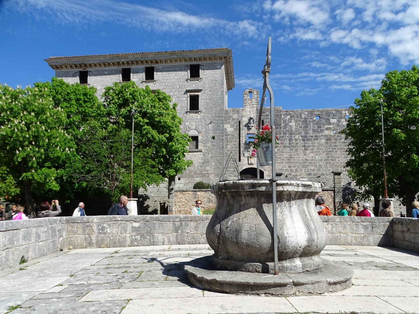 Kaštel Grimani, Svetvinčenat, Croatia